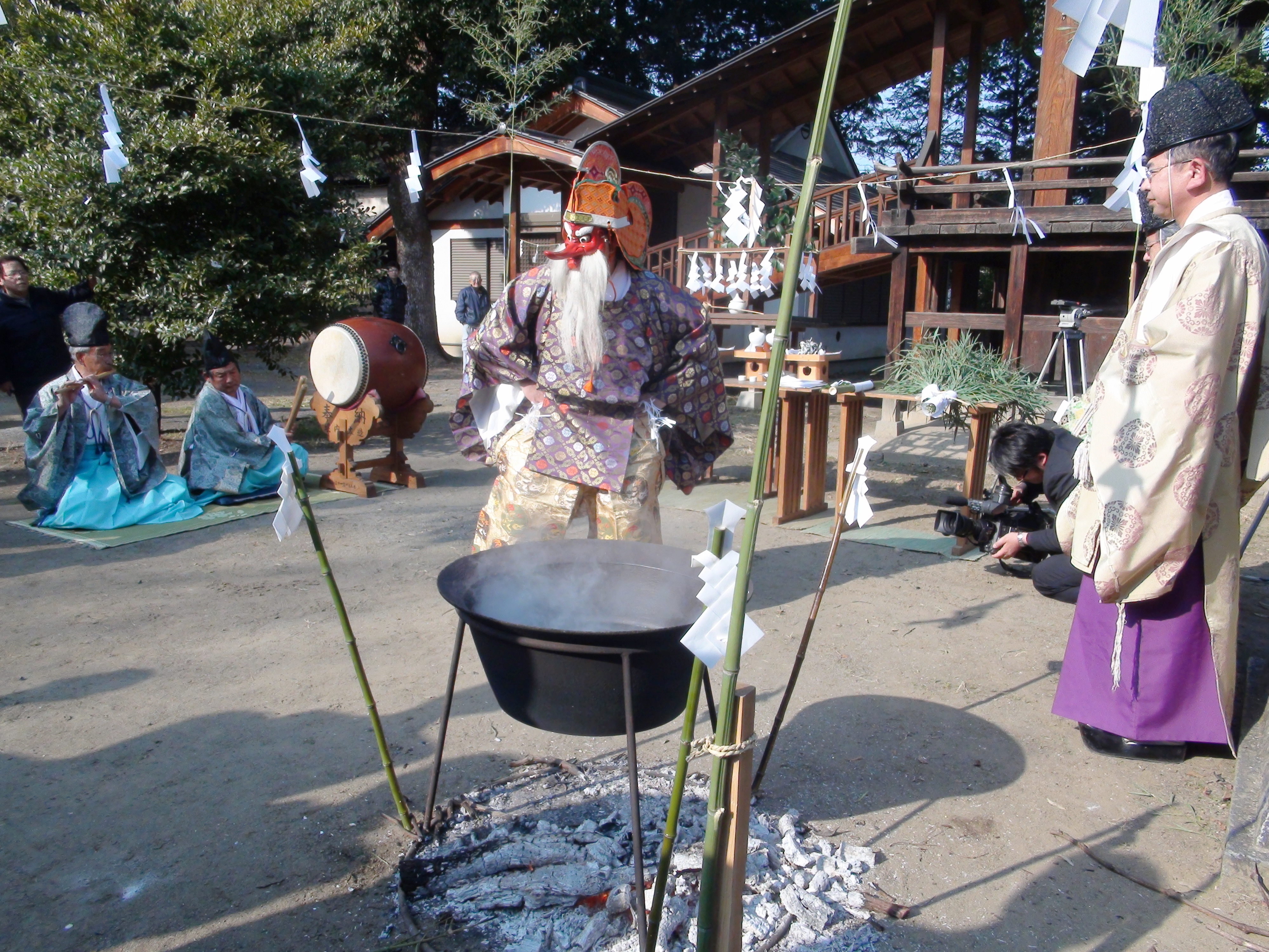 Miwa-shrine Yutateshinji Kagura（The ceremony of a traditional Shinto shrine）